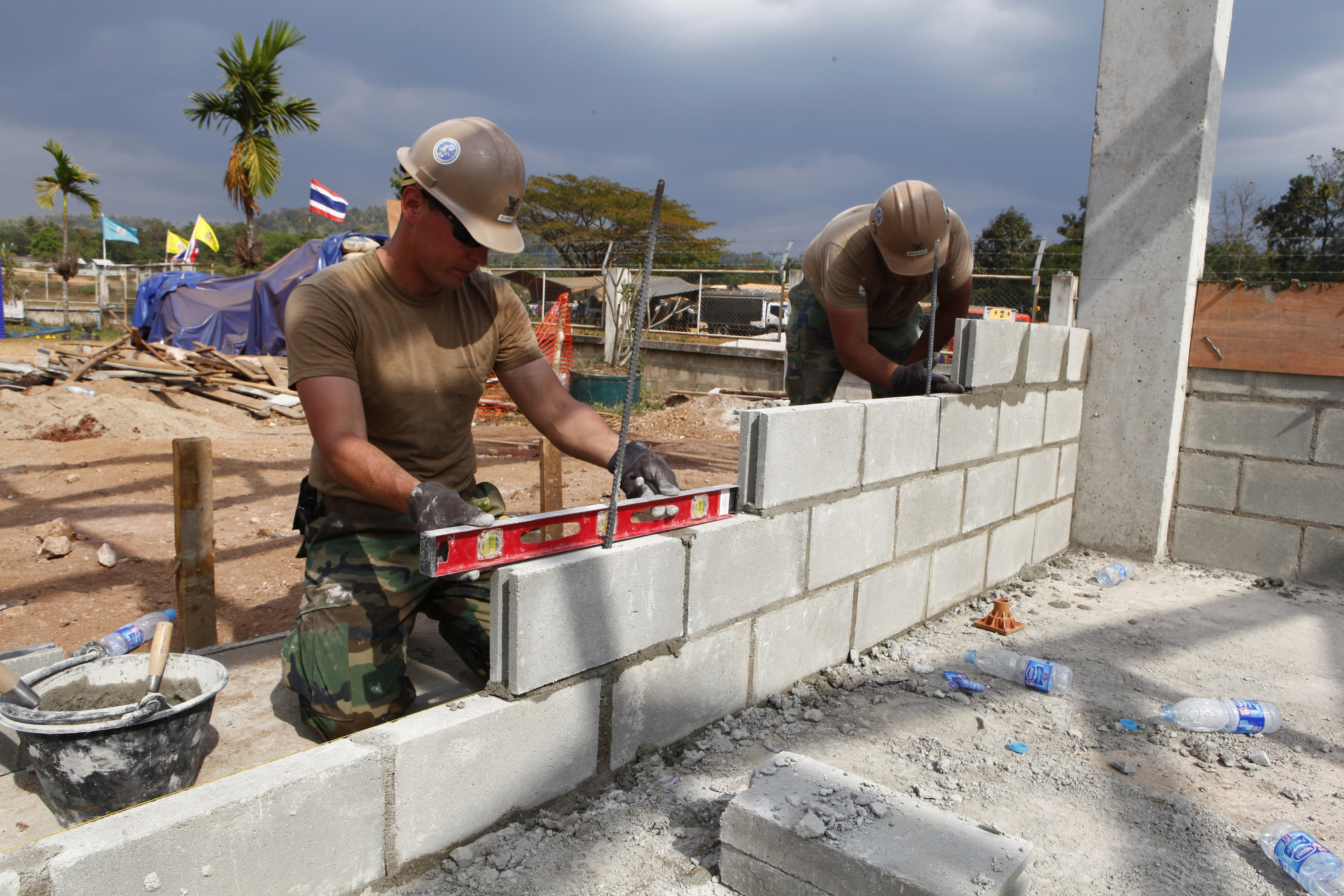 TAK, Thailand (Jan. 28, 2011) Seabees assigned to Naval Mobile Construction Battalion (NMCB) 11 build a classroom at Pa Ka Mai School during exercise Cobra Gold 2011. The classroom construction project, one of several humanitarian assistance projects taking place throughout Thailand, began Jan. 18 and is scheduled to be completed Feb. 21. (U.S. Marine Corps photo by Lance Cpl. Alejandro Pena/Released)